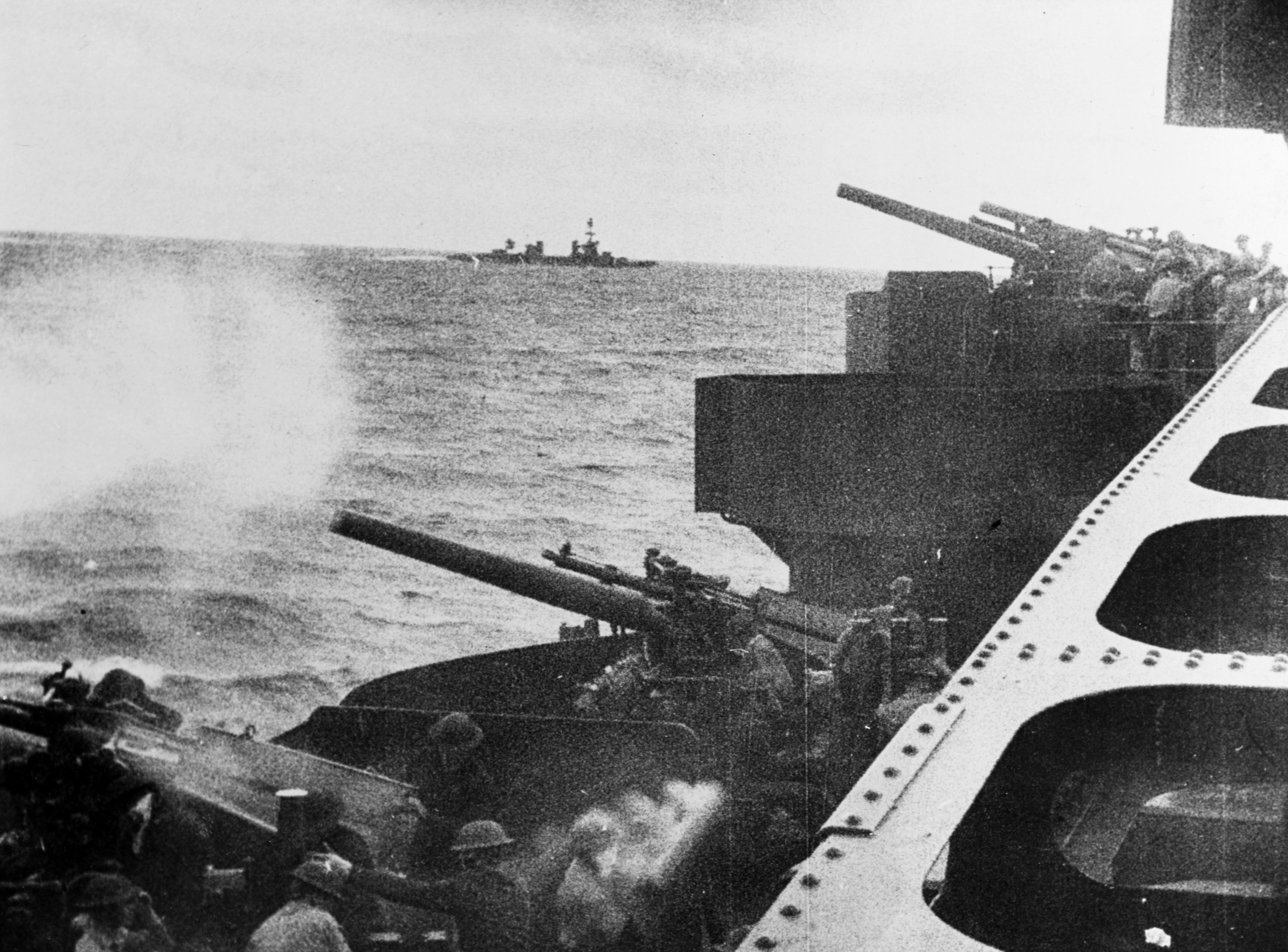 View of the port side 127 mm/25 caliber guns aboard the U.S. Navy heavy cruiser USS Northampton (CA-26) in action against the Japanese base on Wotje Atoll, Marshall Islands, early on 1 February 1942. USS Salt Lake City (CA-25) is visible in the background.